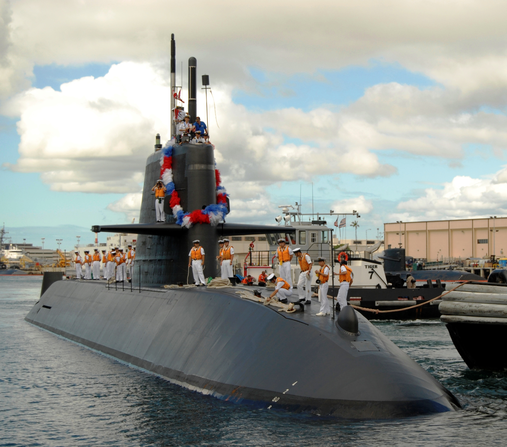 Japan Maritime Self-Defense Force (JMSDF) Oyashio-class submarine Yaeshio (SS-598) arrives at Naval Station Pearl Harbor for an annual training exercise.